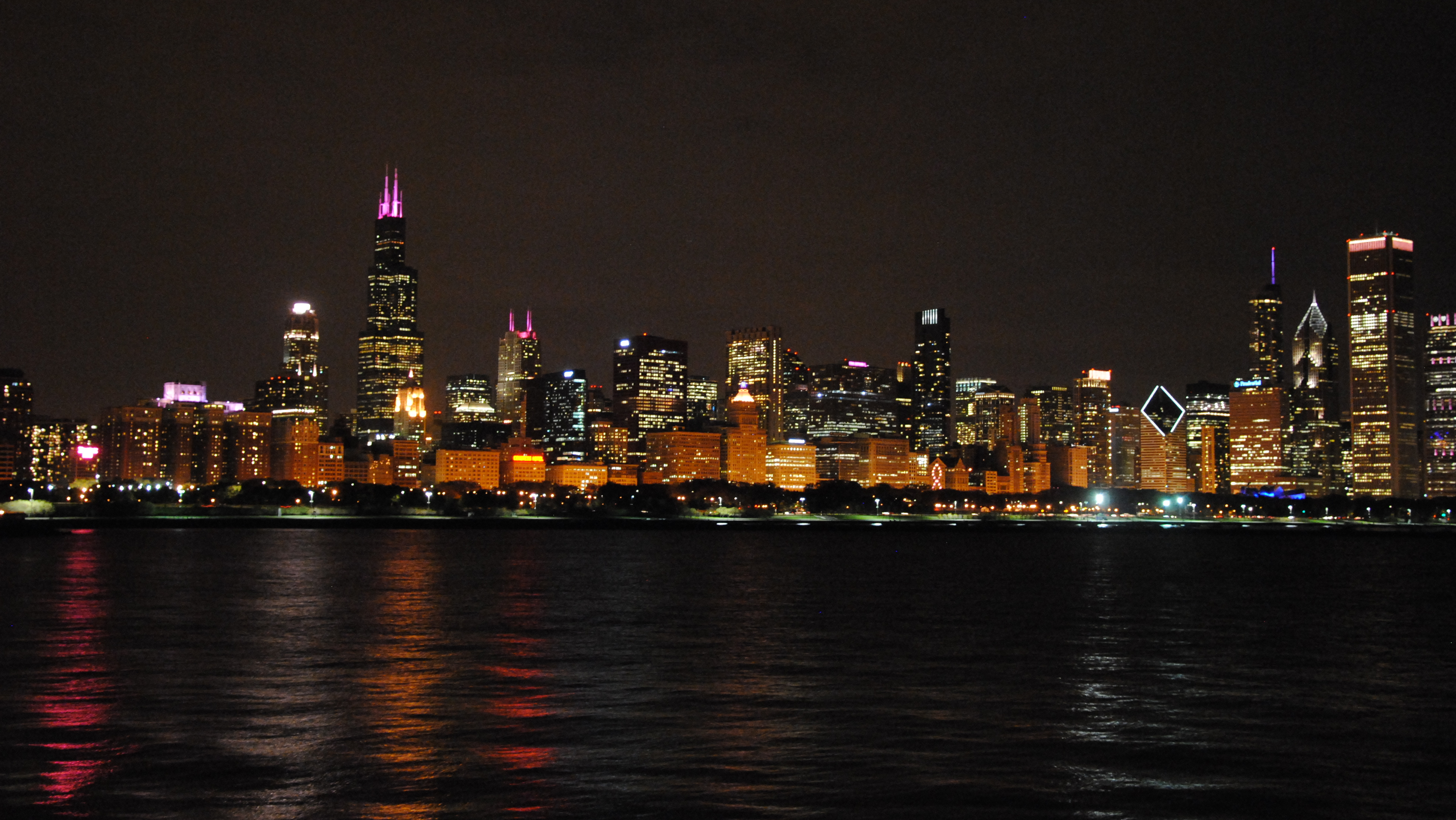 Chicago, IL. USA.